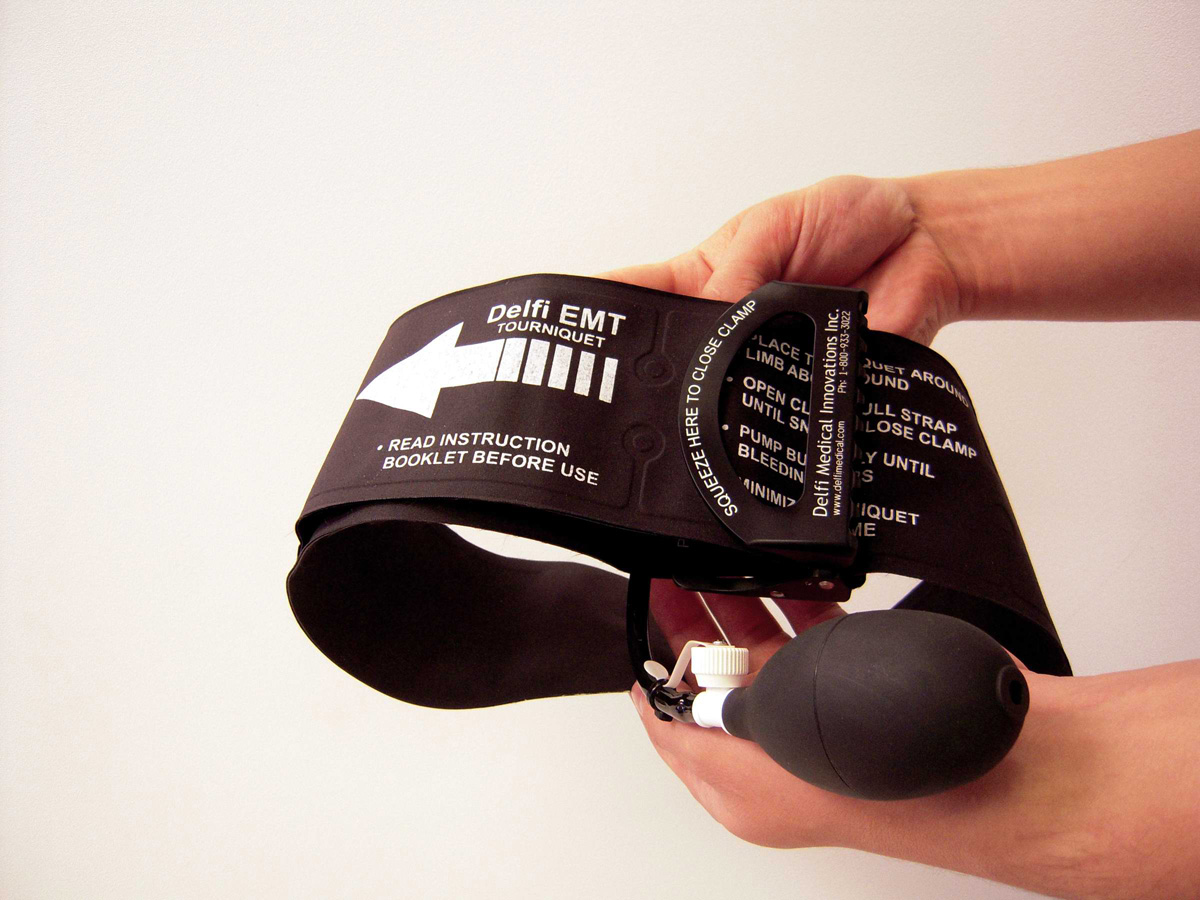 Pneumatic emergency tourniquet with bladder and clamp for stopping traumatic hemorrhage.